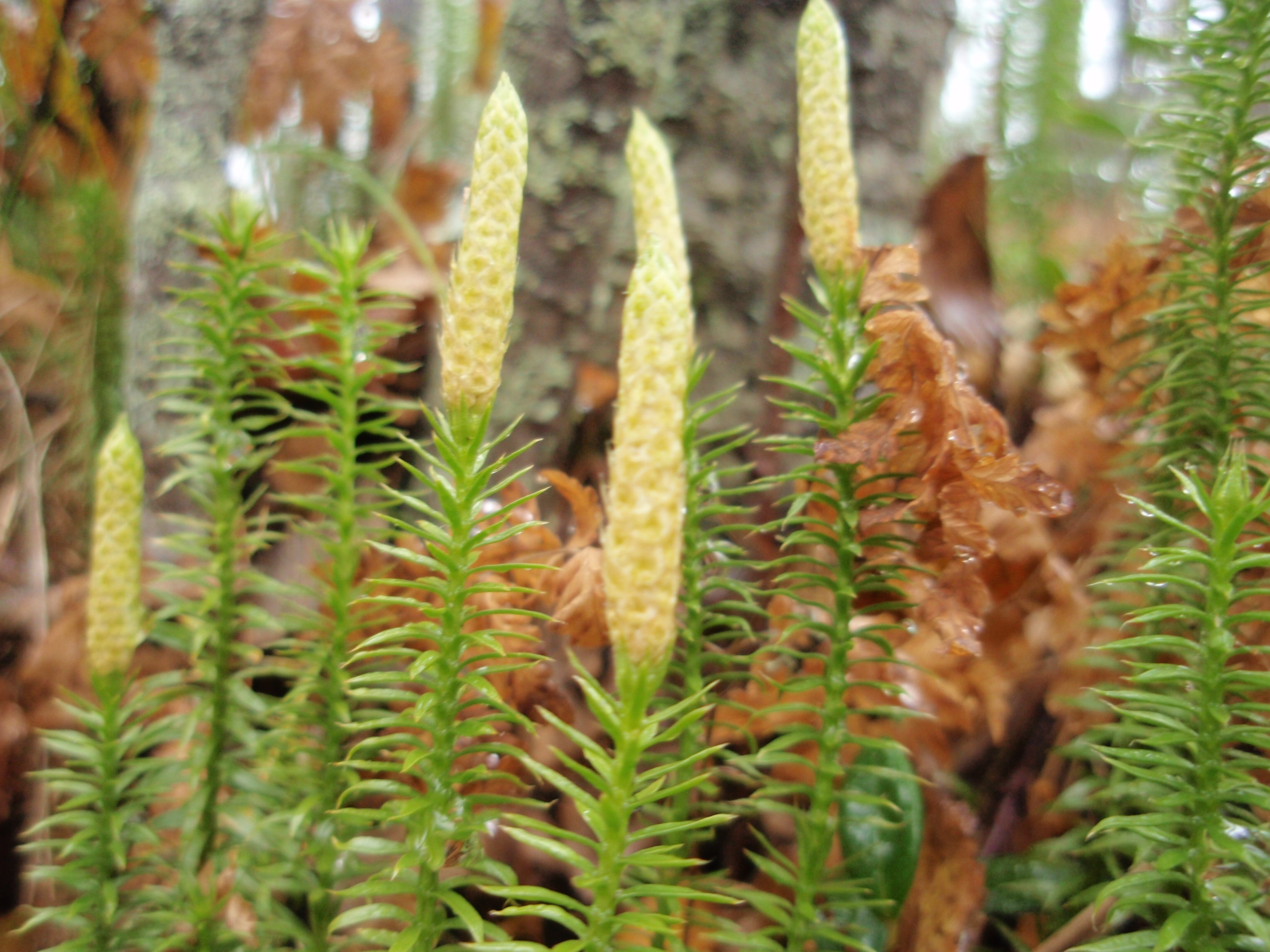 This is a good picture....